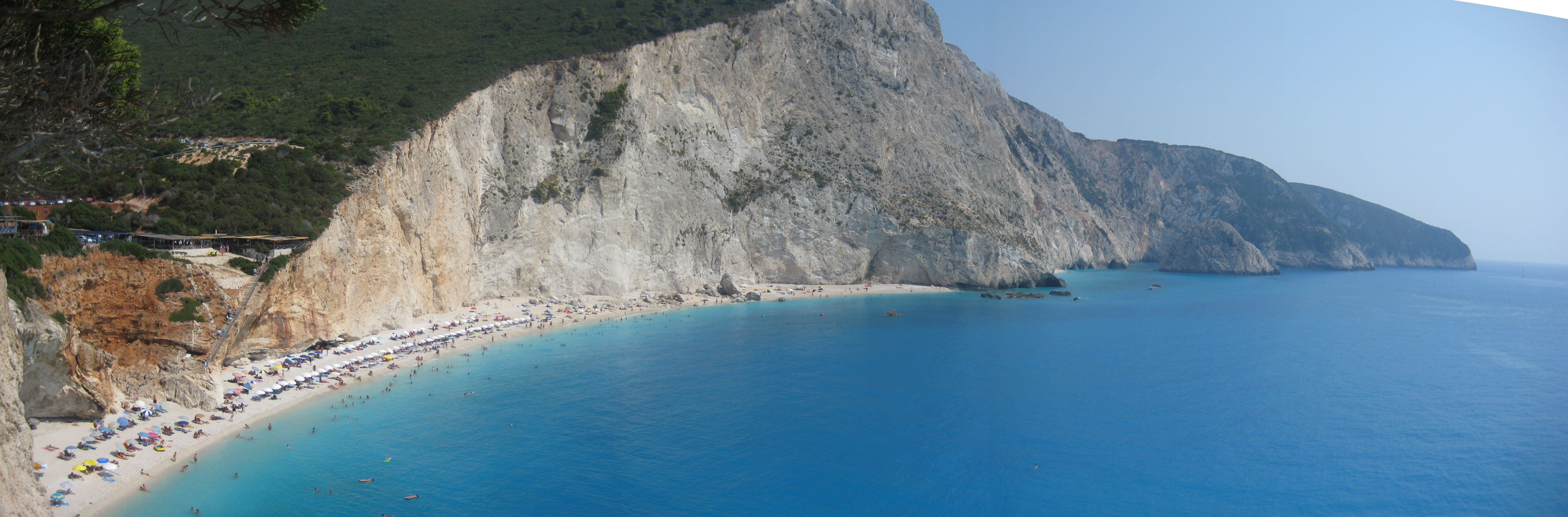 The famous beach of Porto Katsiki. Panoramic photograph